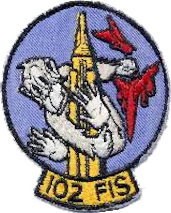 102d Fighter-Interceptor Squadron - Emblem